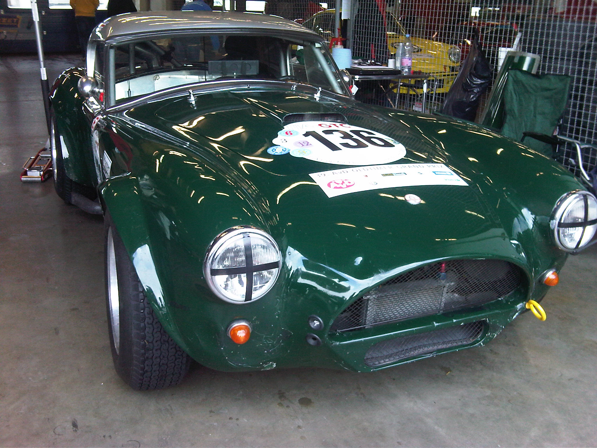 AC Shelby Cobra Mk II (1963, Ex-Chequered Flag / Tommy Atkins), Driver: Bill Shepherd (GB) (39. AvD Oldtimer-Grand-Prix, Nürburgring 12.-14.08.2011)